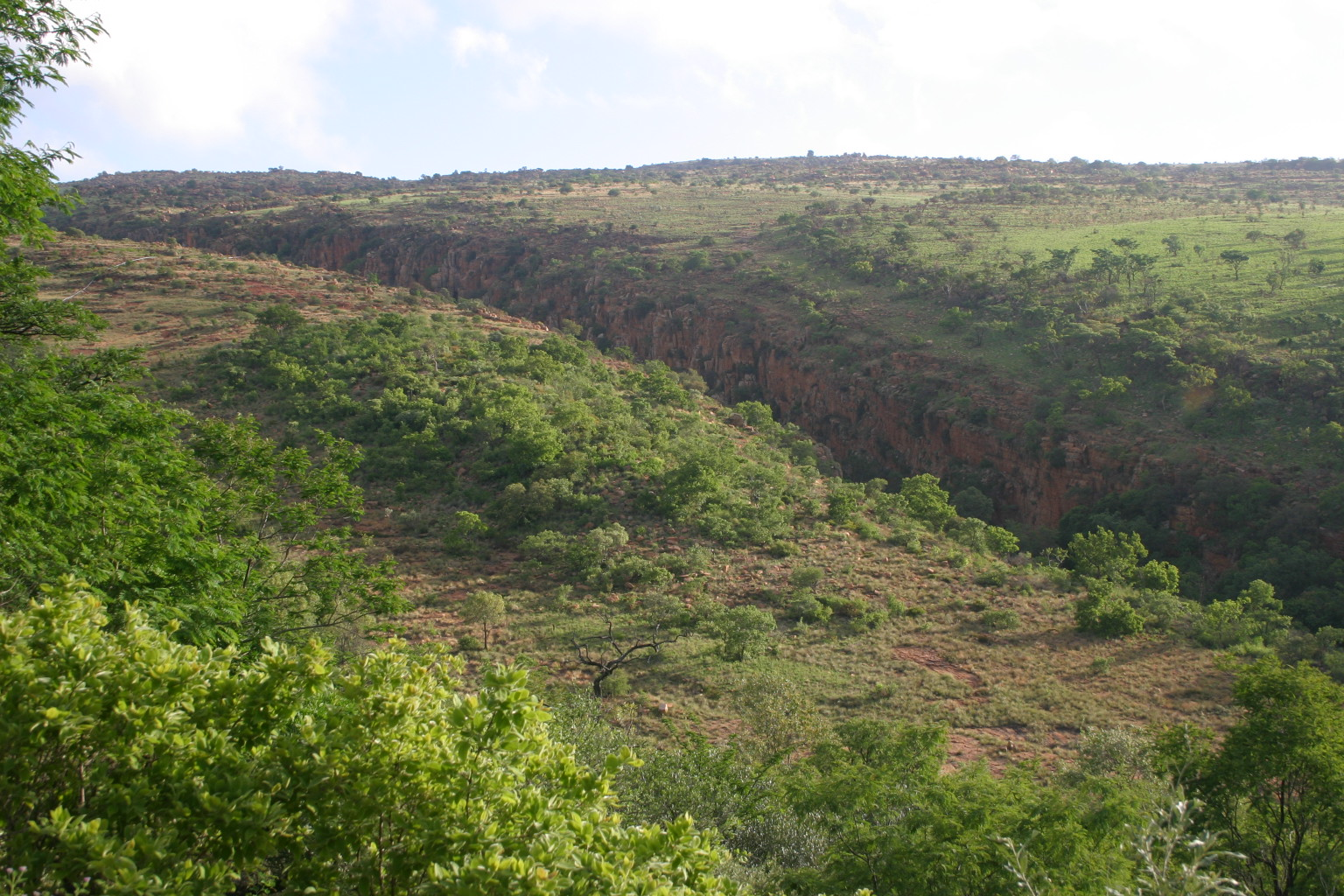 Hamerkop Kloof in the Magaliesberg